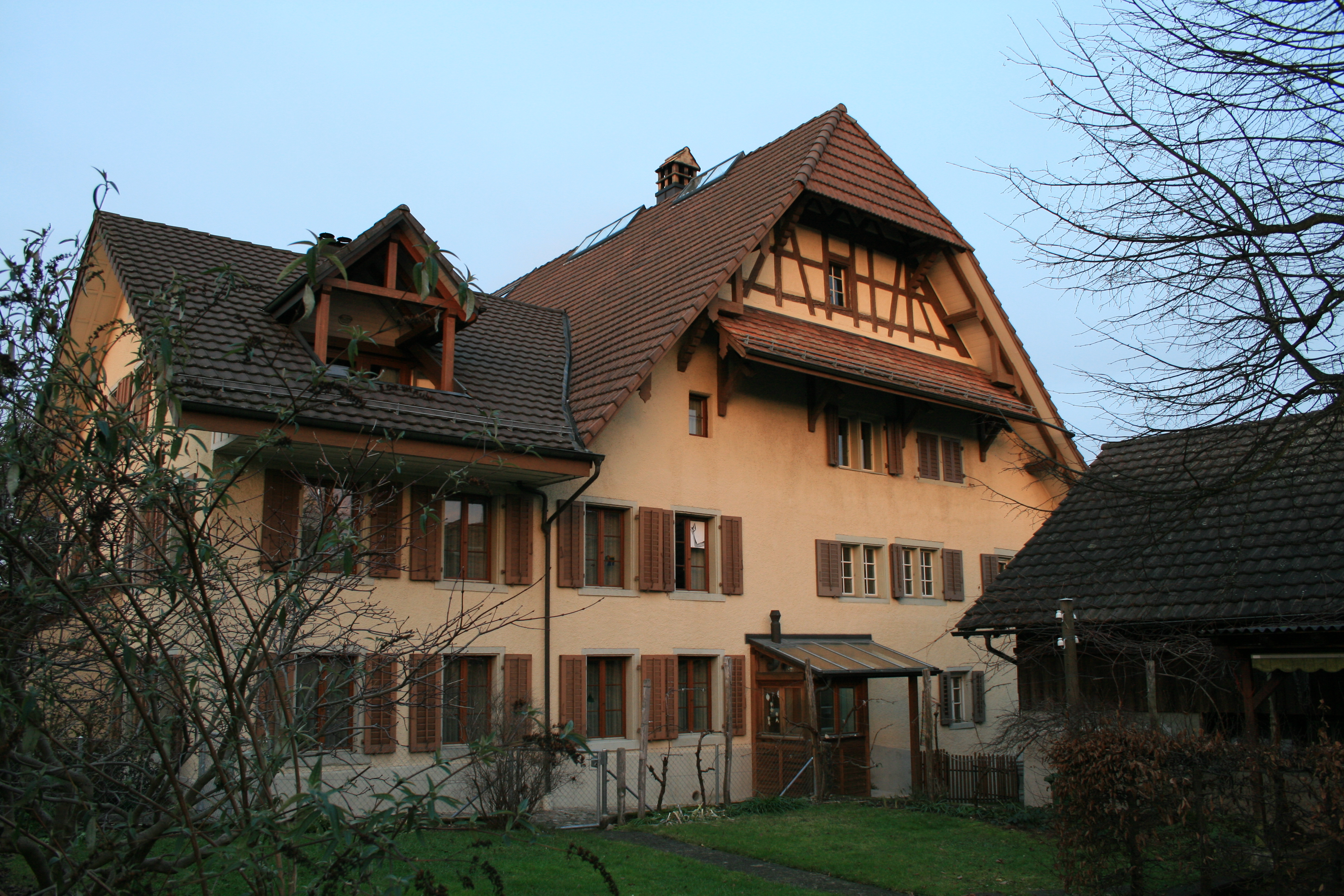 The village of Dättwil, Baden AG, Switzerland